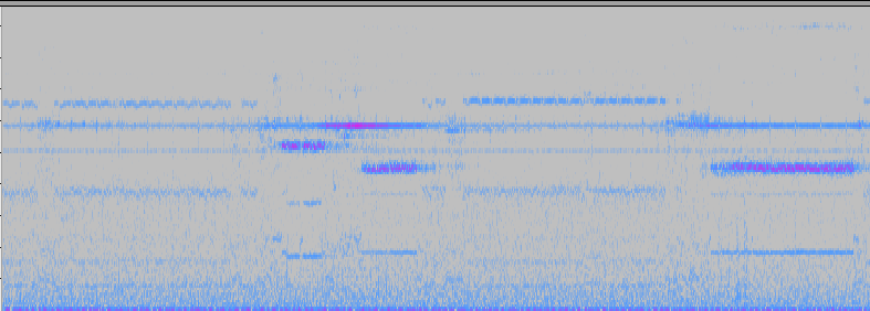 A spectrogram of a trace containing RSA encryption and decryption. Encryption and decryption are occurring at the dark purple lines in the graph.